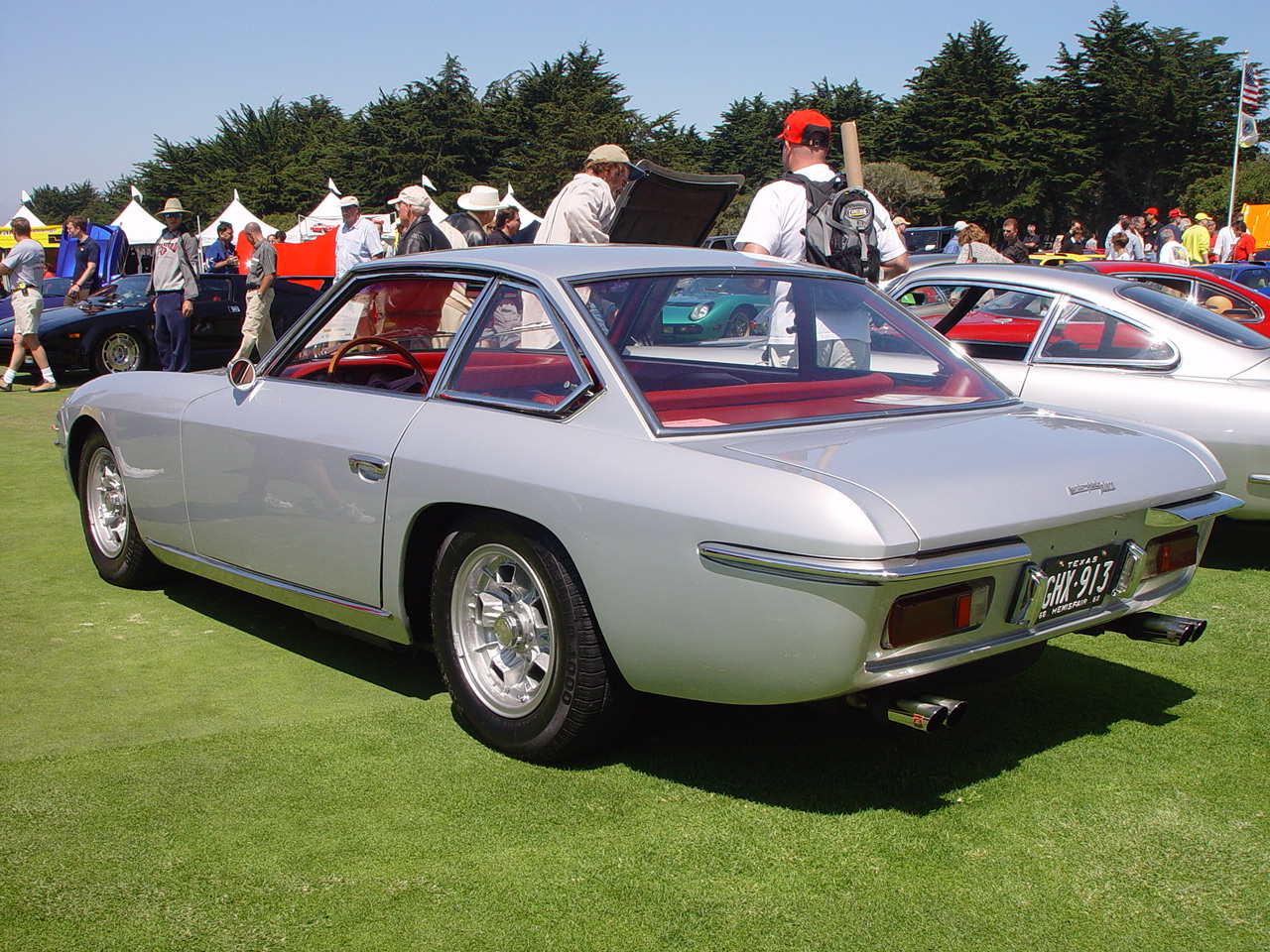 Lamborghini Islero. Photograph taken at 2004 Concorso Italiano.